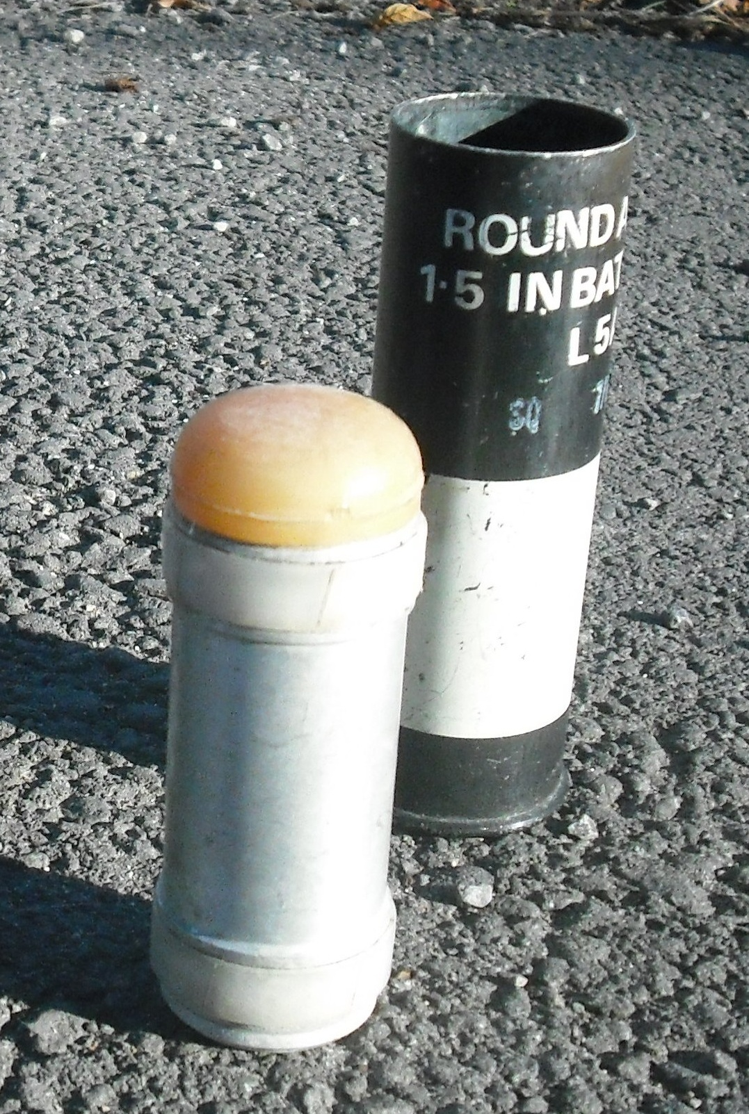 Left to right: L21 plastic baton round with plastic nose and gas seals. Casing for a plastic baton round, ROUND 1.5 IN BATON ROUND L5A4, date-marked 1988